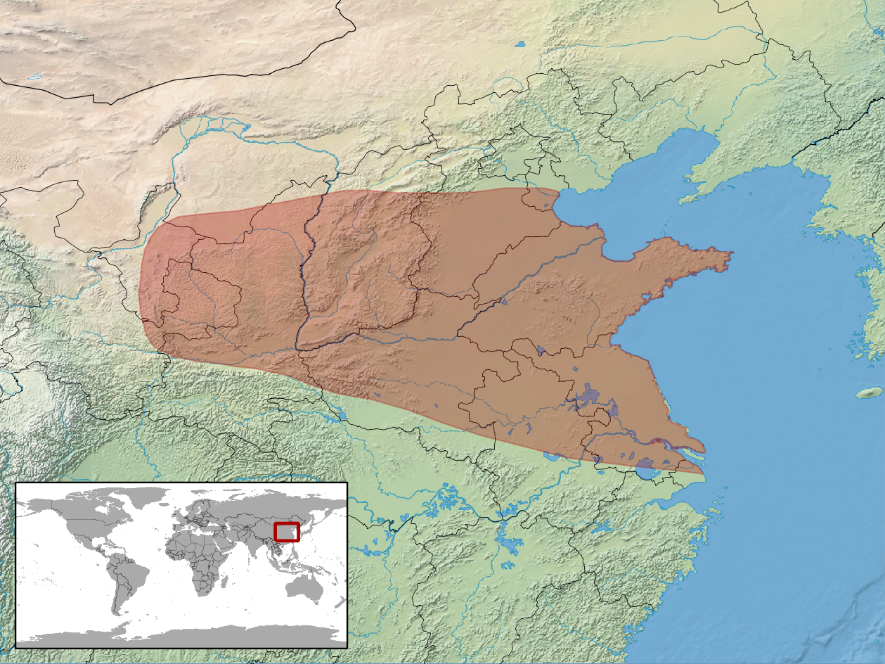 geographic distribution of Gekko swinhonis (Native: China (Anhui, Gansu, Hebei, Henan, Jiangsu, Liaoning, Ningxia, Shaanxi, Shandong, Shanxi, Zhejiang))